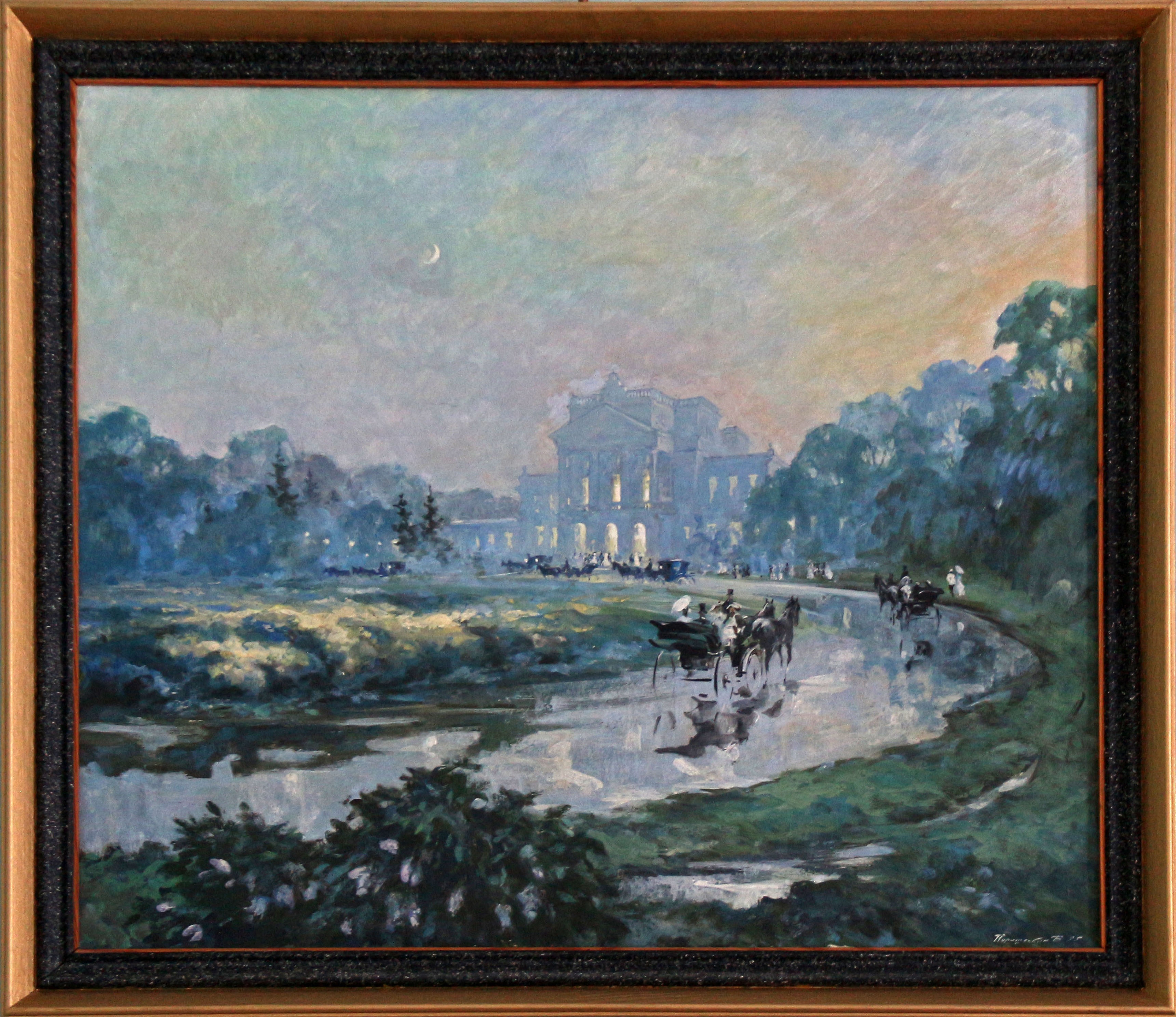 Picture, Marino (manor of Baryatinsky)